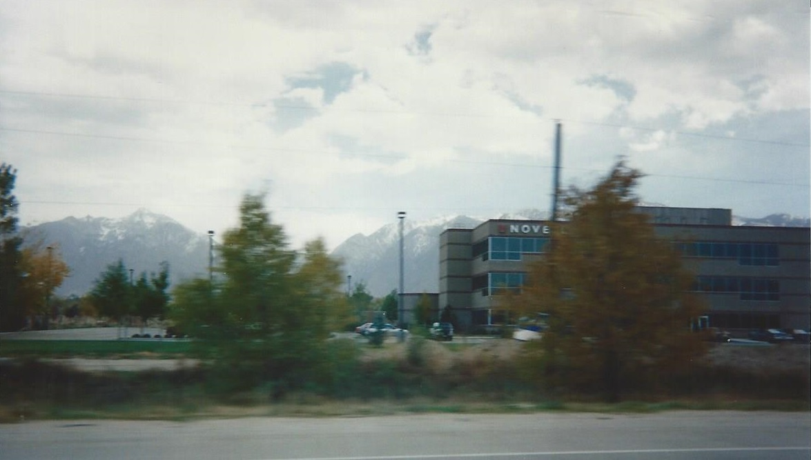 The former Novell building at 280 West 10200 South, Sandy, Utah, as seen from northbound I-15. It had earlier headquartered Univel, where much of the NetWare and UnixWare integration work took place, in the early 1990s. The building is now home to a dyeing company.